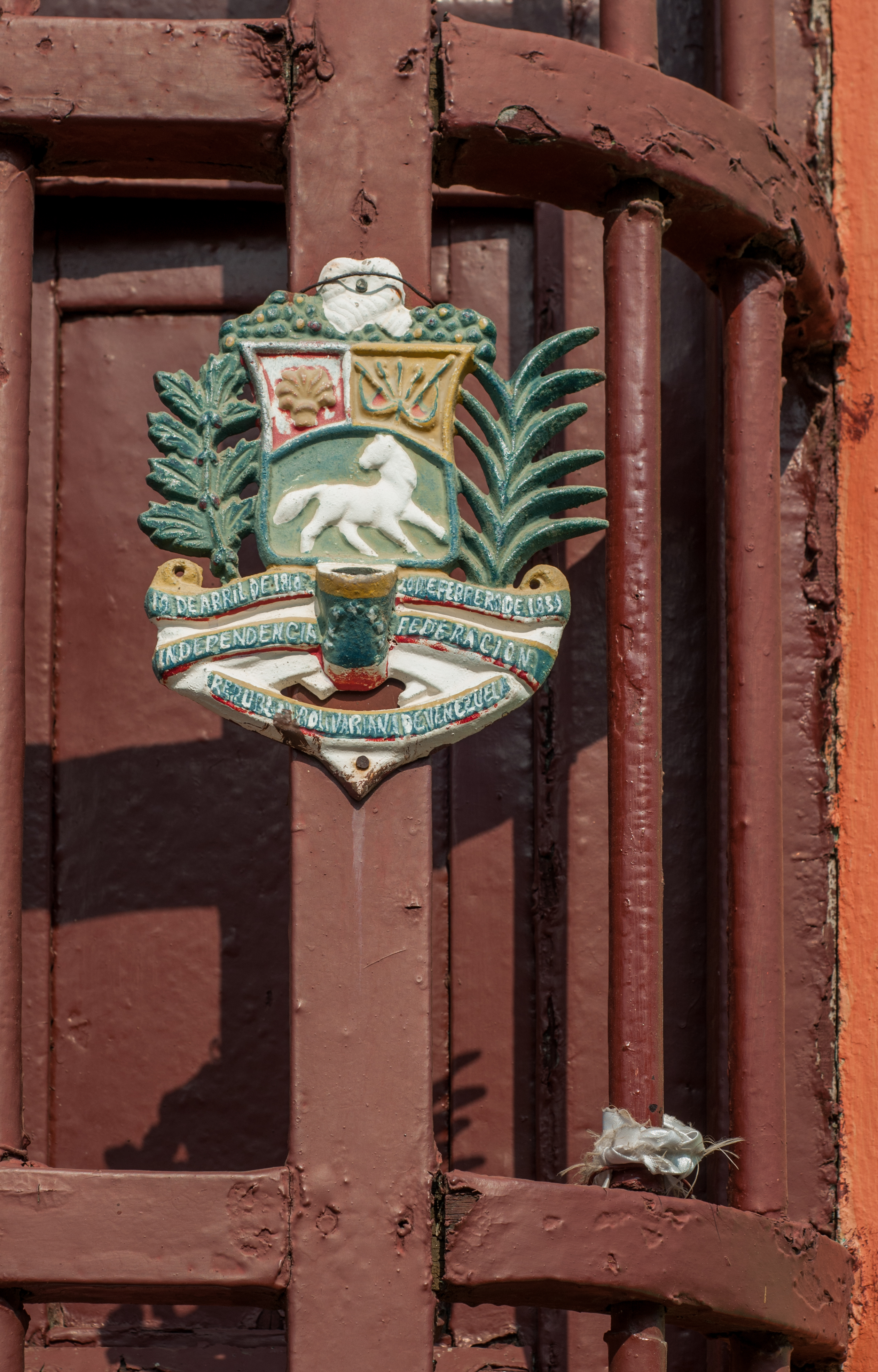 Base to place the flag of Venezuela as a shield